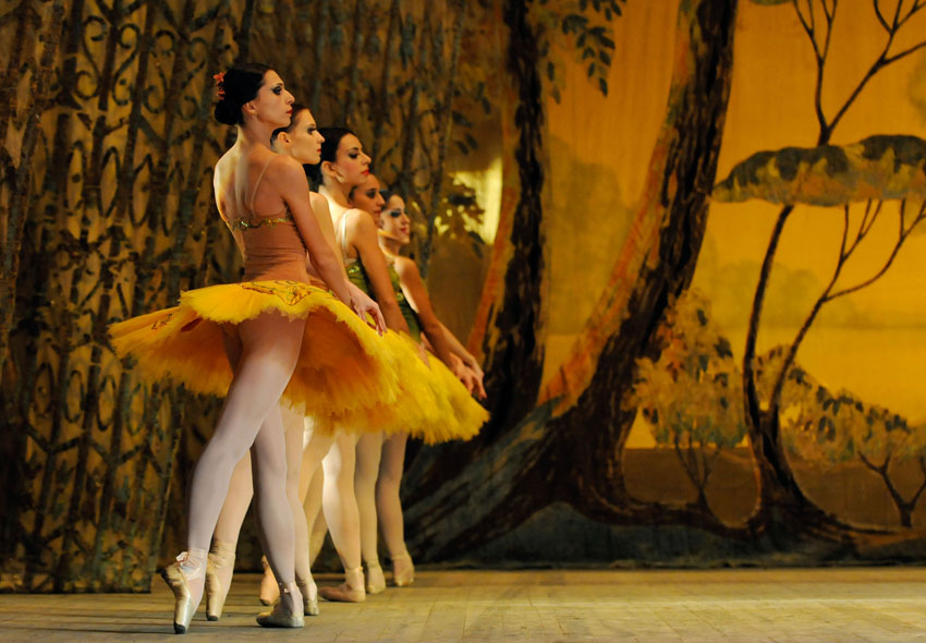 Scene from Don Kichote ballet